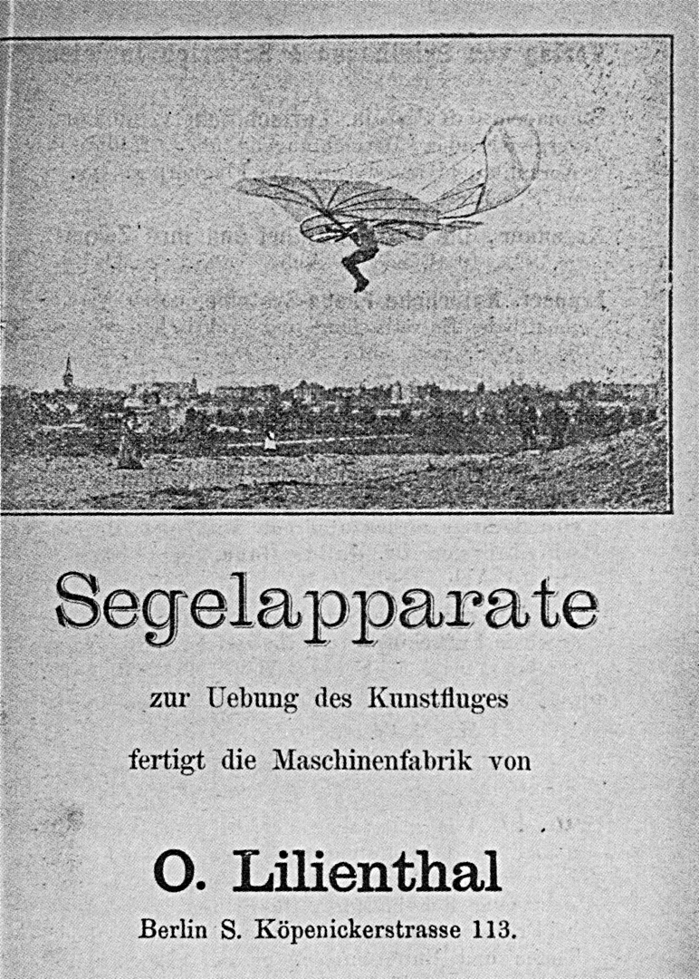 Hang gliders advertisement of Maschinenfabrik Otto Lilienthal, 1895